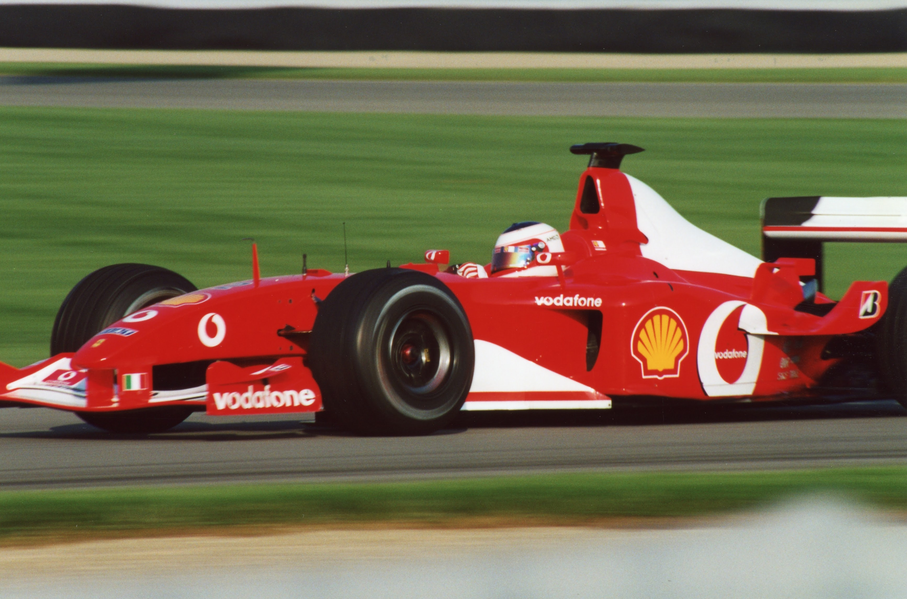 Rubens Barrichello driving for Scuderia Ferrari at the 2003 United States Grand Prix at Indianapolis.